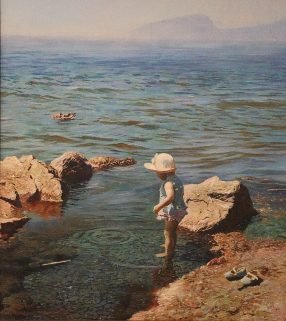 Picture Stone. Artists Konstantin Miroshnik, Natalia Kurguzov-Miroshnik